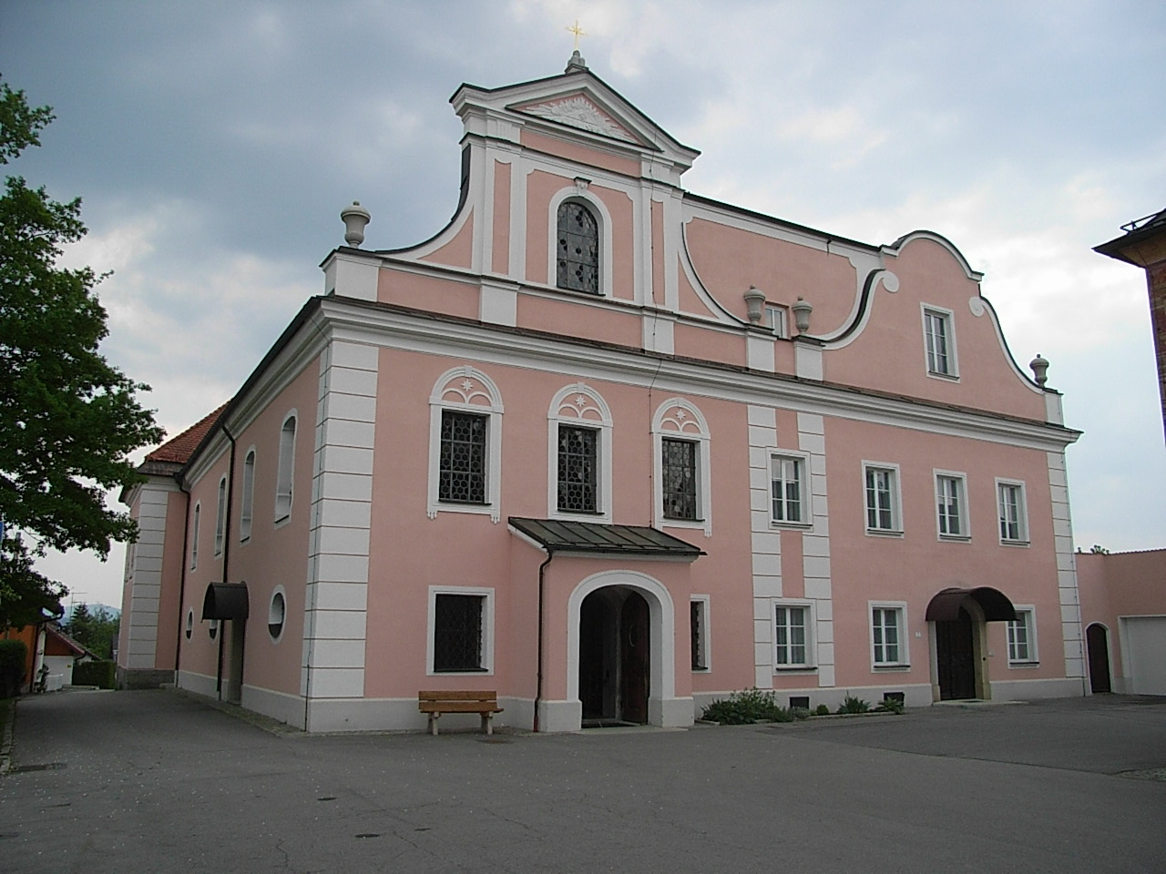 Thyrnau, St Francis Xavier Parish Church from north-east.